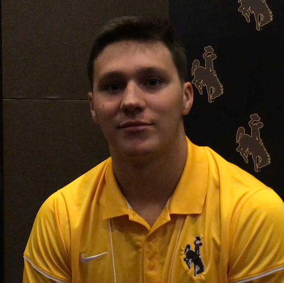 Josh Allen, quarterback of the Wyoming Cowboys football team, at the 2017 Mountain West Conference Media Days in the The Cosmopolitan in Las Vegas.